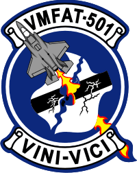 VMFAT-501 unit insignia